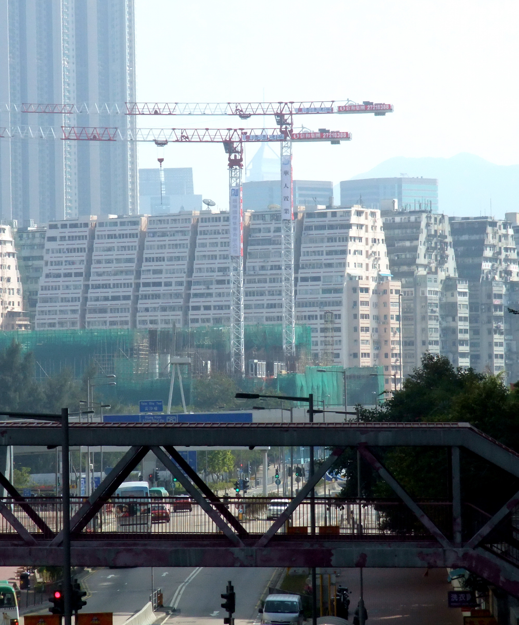 Man Wah Sun Chuen located in Yau Ma Tei, Kowloon, Hong Kong.